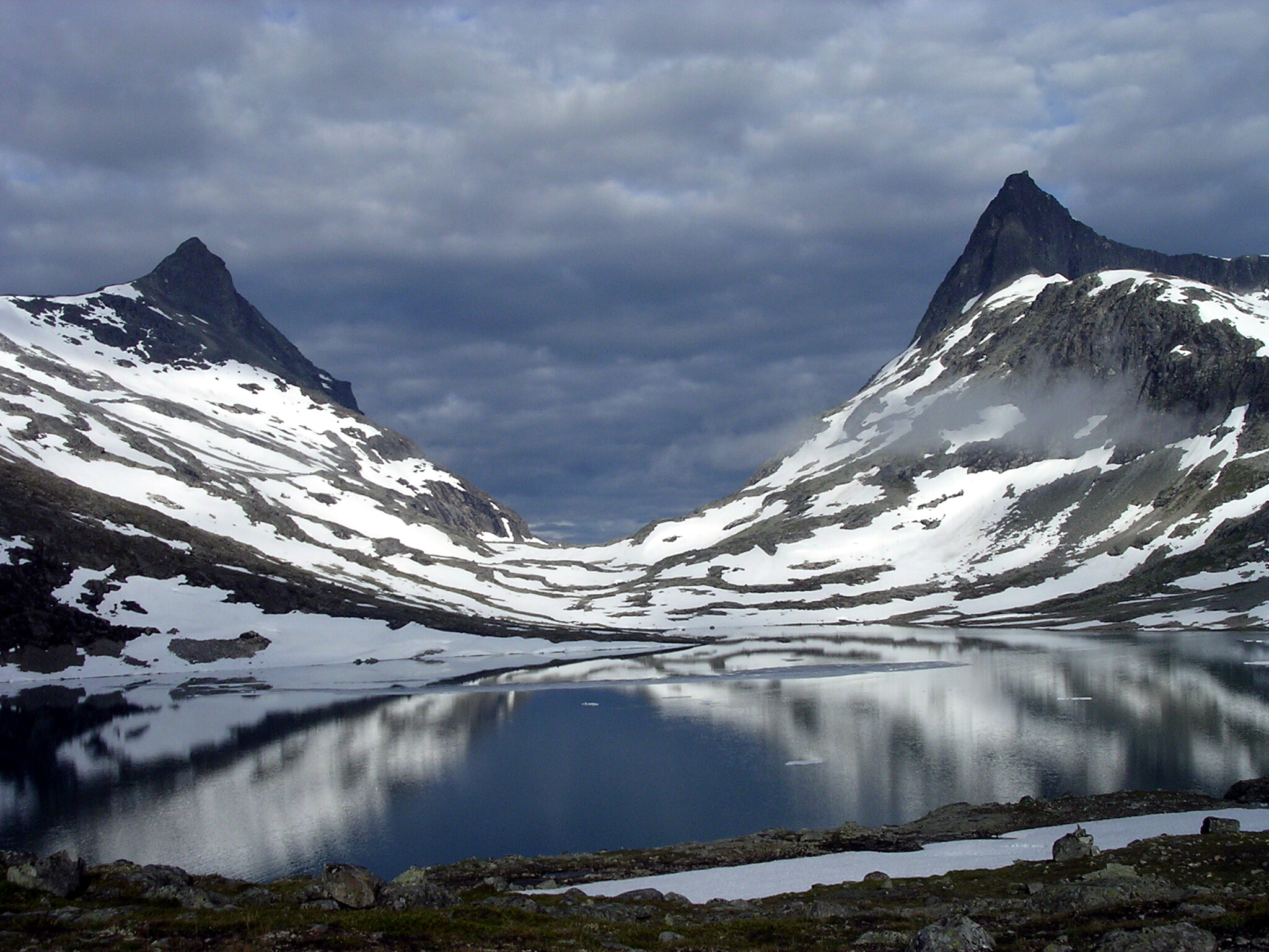 Morka-Koldedalen seen from Koldedalsvatnet in east. The two mountains on each side of the valley are named Hjelledalstind (left) and Falketind (right).